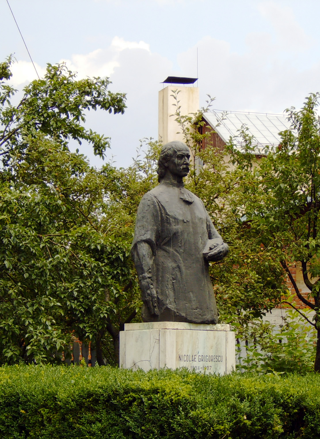 Bust of the Romanian painter Nicolae Grigorescu, placed since 1957 in the front yard of the art museum and memorial house Nicolae Grigorescu in Câmpina, Romania